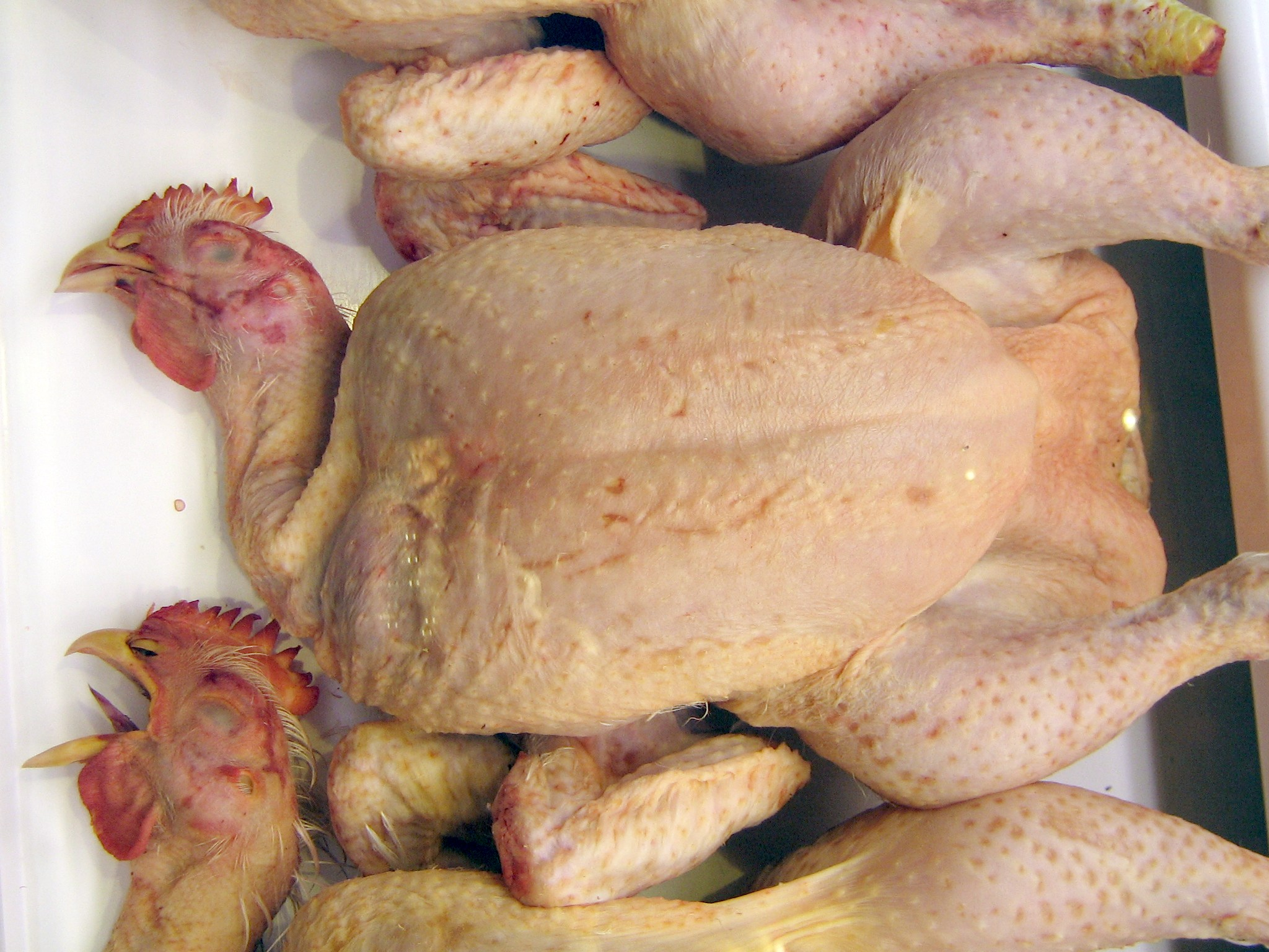 Chicken for sale in La Boqueria market.